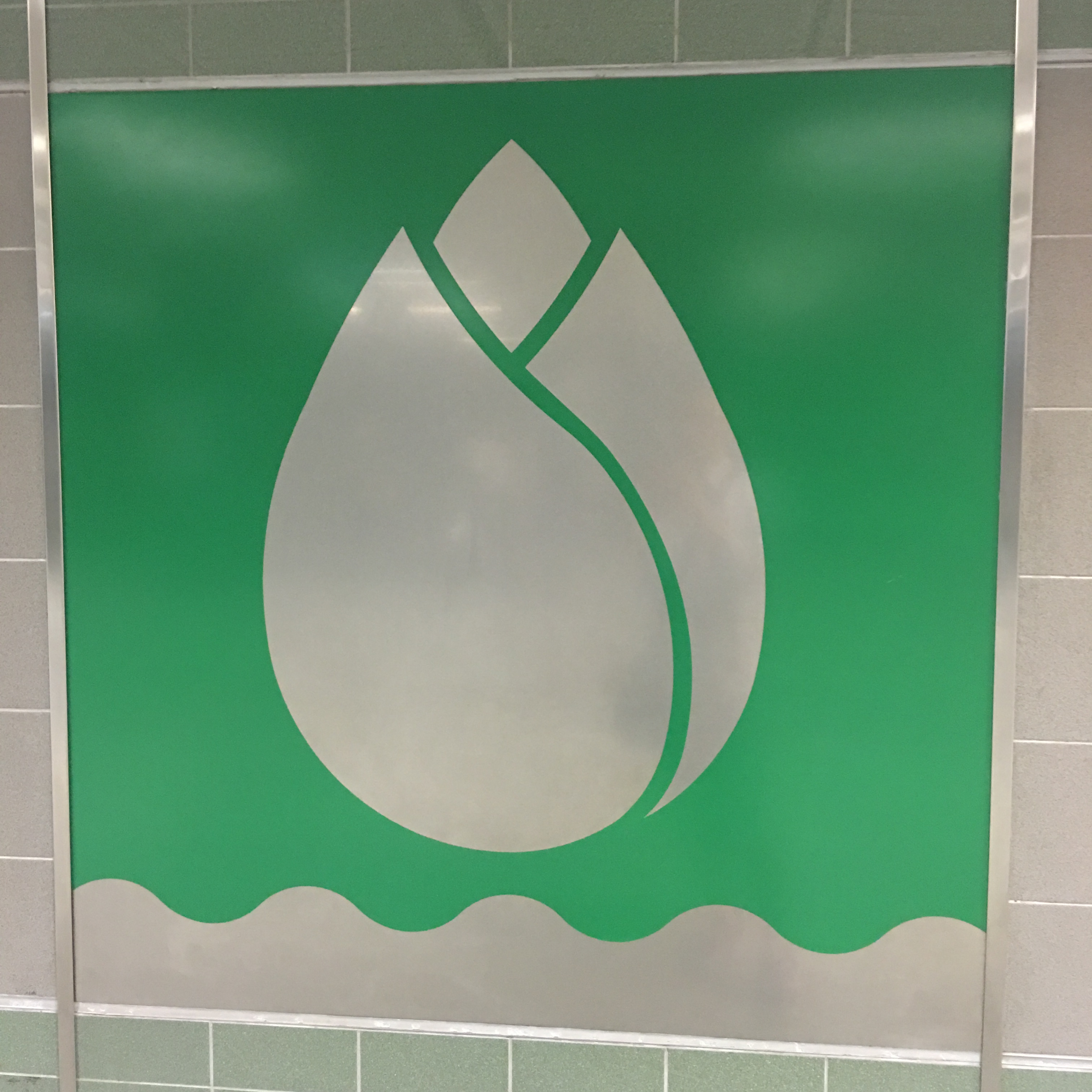 "Lotus" - The symbol of Lumphini Station